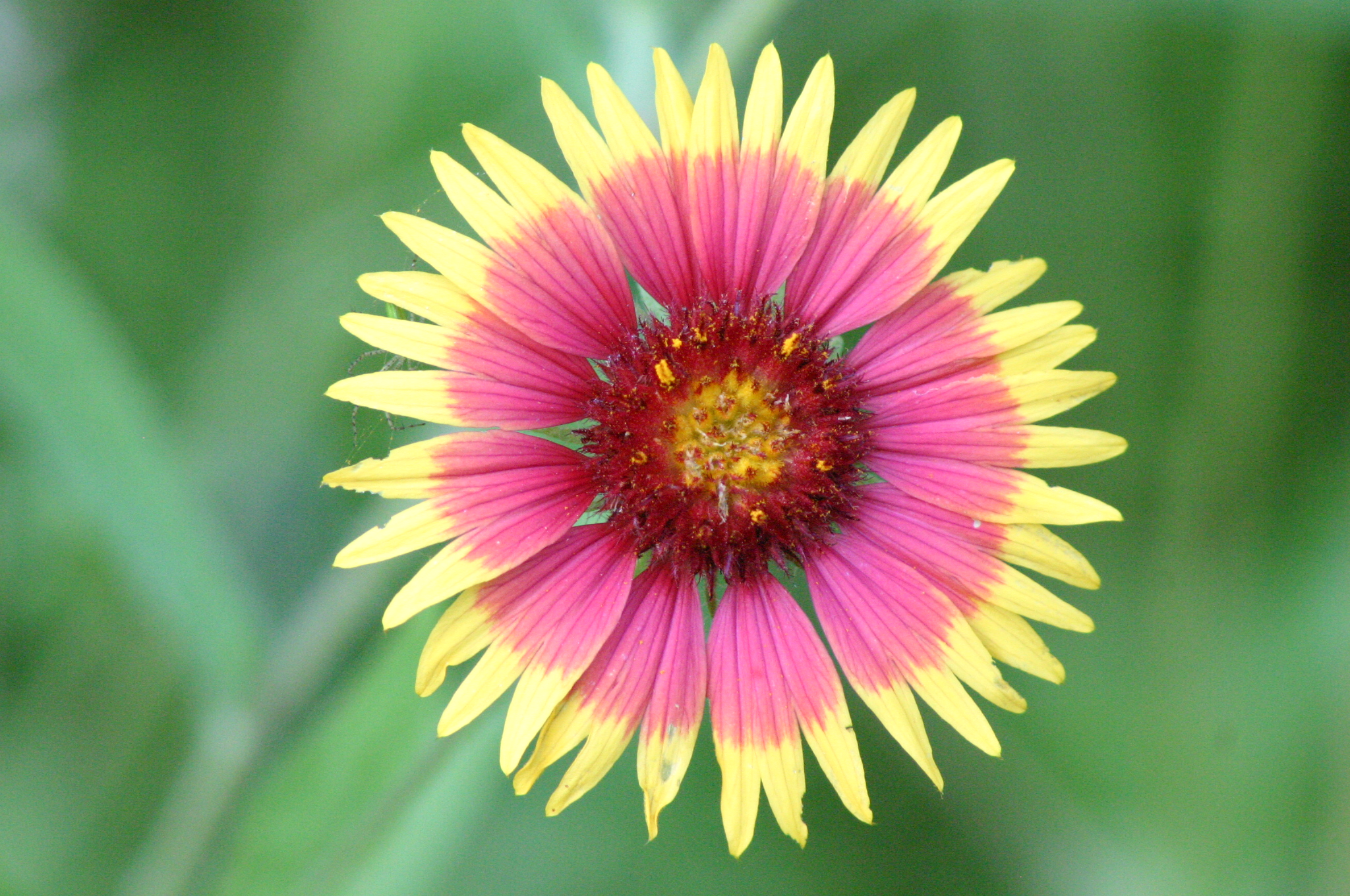 Flower of Firewheel, also known as Indian Blanket (Gaillardia pulchella) at Onion Creek Hike and Bike Trail, McKinney Falls State Park, Austin, Texas, USA